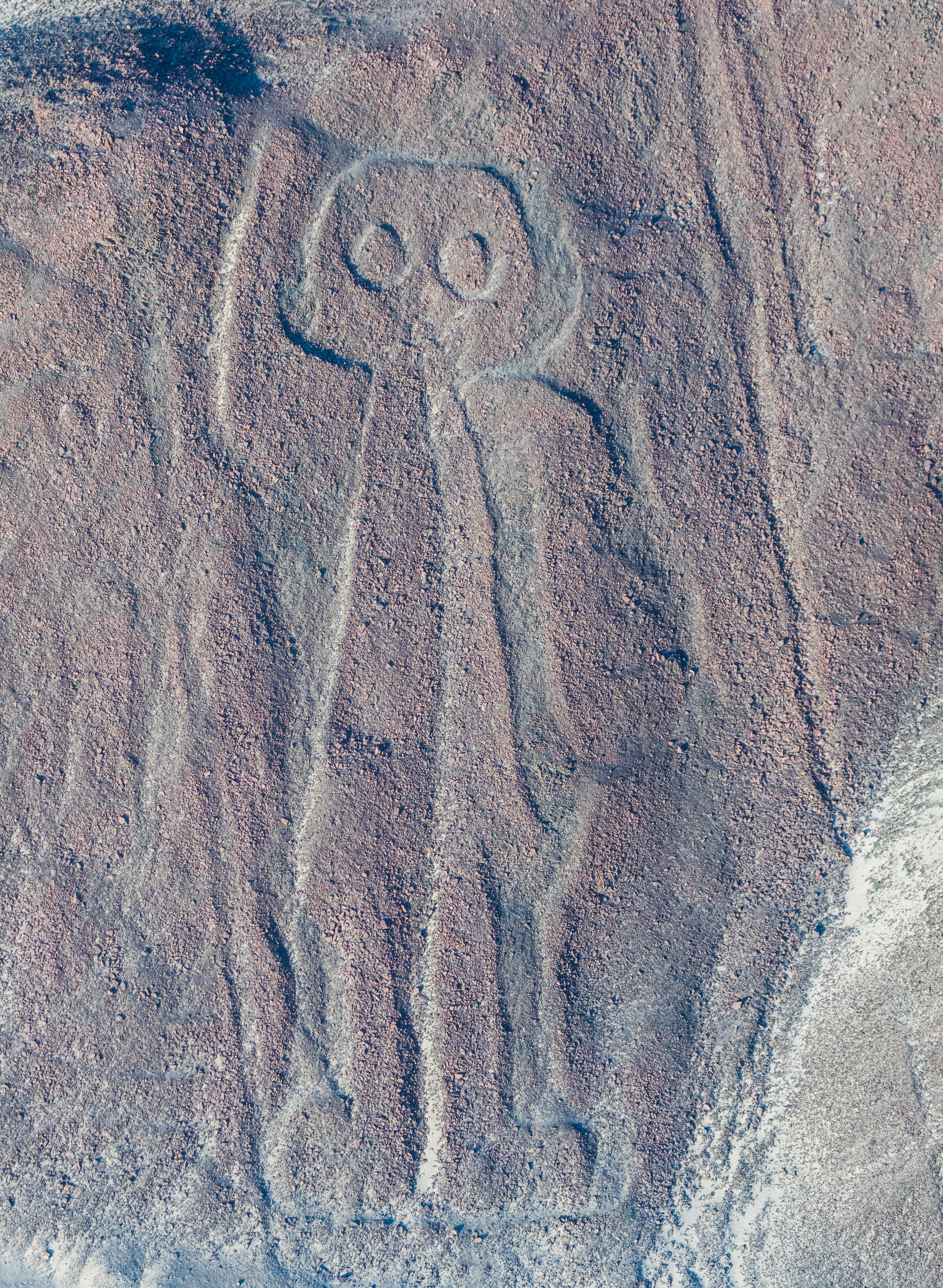 Aerial view of the "Owlman" aka "Astronaut", the most enigmatic geoglyph of the Nazca Lines, which are located in the Nazca Desert in southern Peru. The geoglyphs of this UNESCO World Heritage Site (since 1994) are spread over a 80 km (50 mi) plateau between the towns of Nazca and Palpa and are, according to some studies, between 500 B.C. and 500 A.D. old.